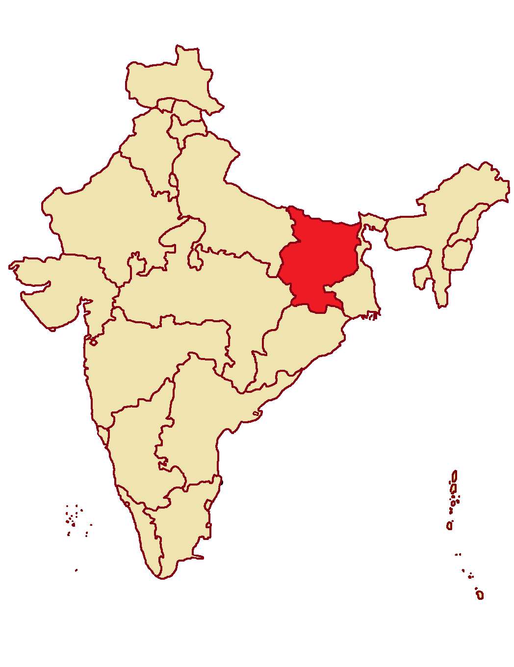 States and Union Territories of India, as of 1964-1965, i.e. between the creation of the state of Nagaland in 1963 and the Punjab Reorganization Act, 1966. Map does not include territories claimed by India but controlled by other countries. Borders not necessarily to scale. Based on File:States_of_India_(1964).png